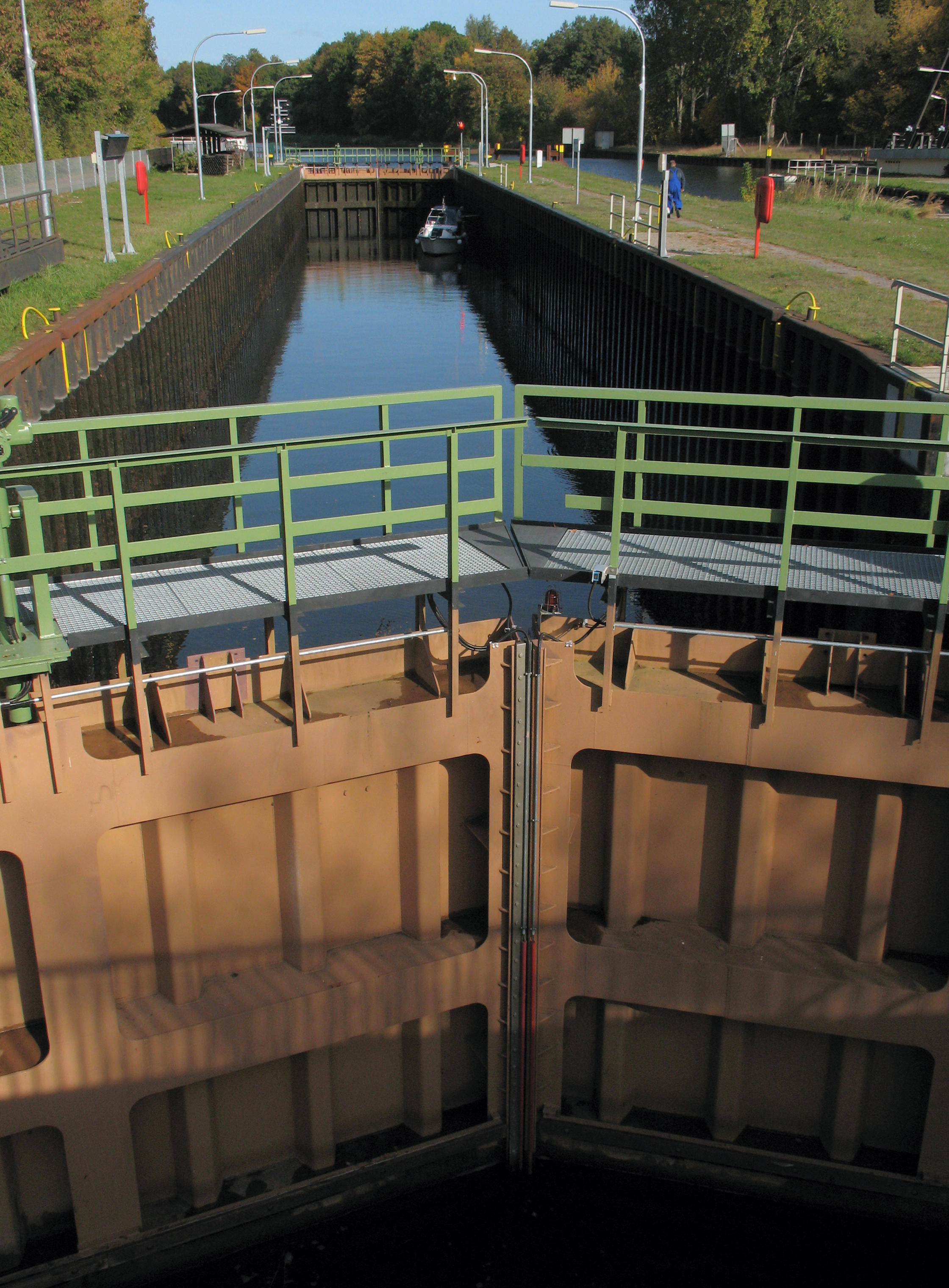 Canal lock in Liebenwalde-Bischofswerder in Brandenburg, Germany